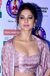 Jennifer Winget at the 25th SOL Lions Gold Awards 2018